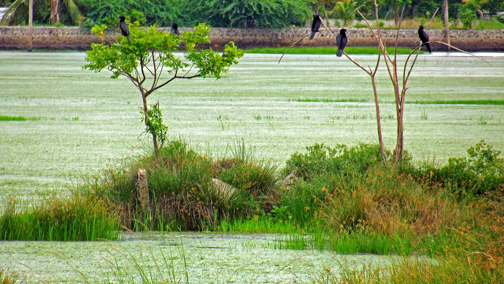 Birds in Pallikaranai Wetland